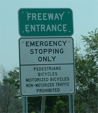 Made by Station Attendant. Taken July 12, 2005 at the eastbound on-ramp to Interstate 90 at Exit 205 (Olmsted County Road 6), in Minnesota. Uploaded August 22, 2006.